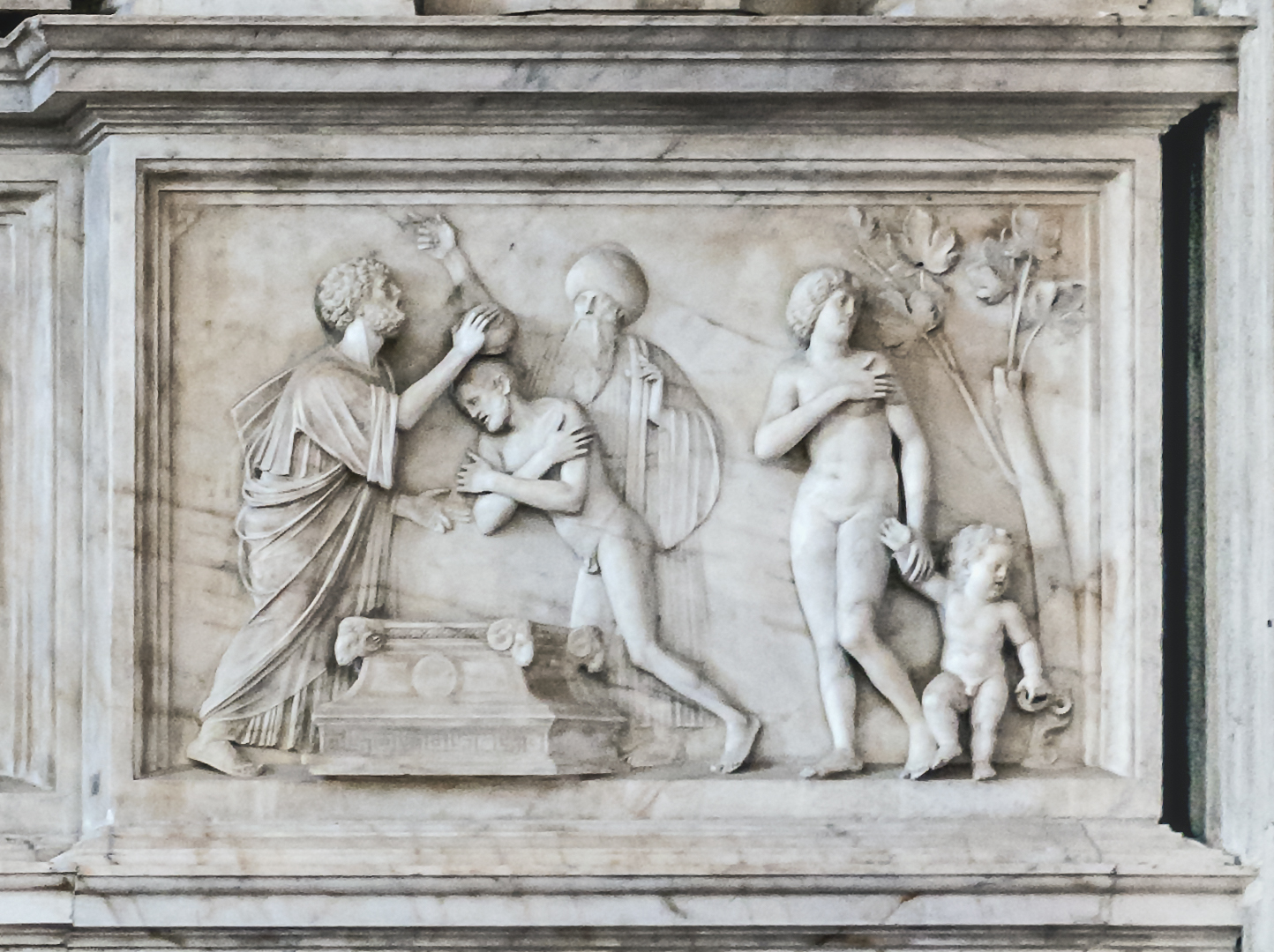 Santi Giovanni e Paolo in Venice, monument of the Doge Giovanni Mocenigo by Tullio Lombardo. Relief of St. Mark baptising Anianus of Alexandria.